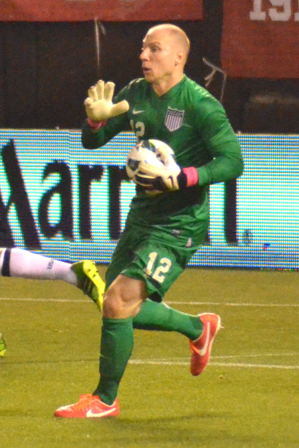 FirstEnergy Stadium Home of the Cleveland Browns